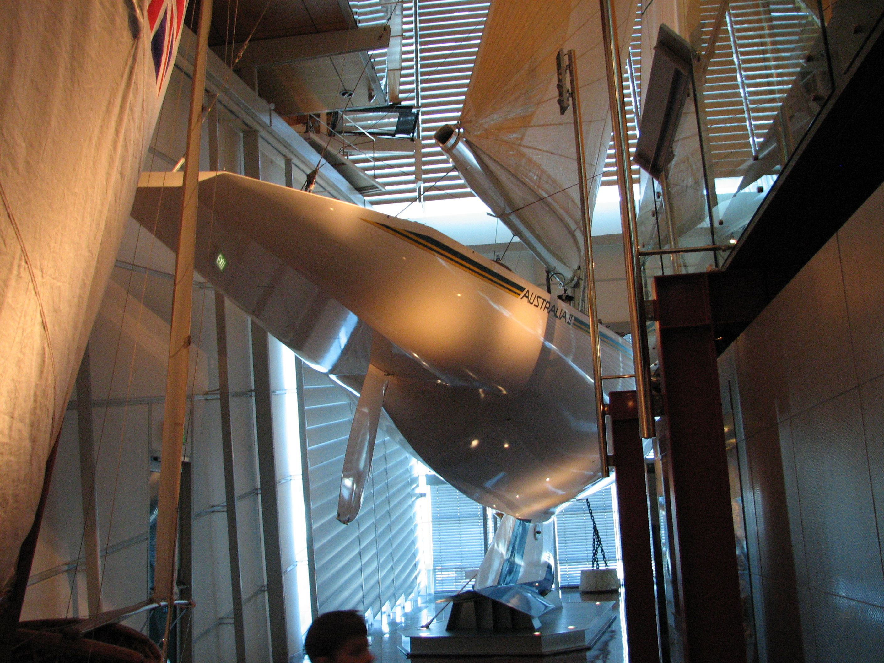 The 21.8 ton Australia II, winner of the 1983 Americas Cup hangs in the Western Australian Maritime Museum at Fremantle.